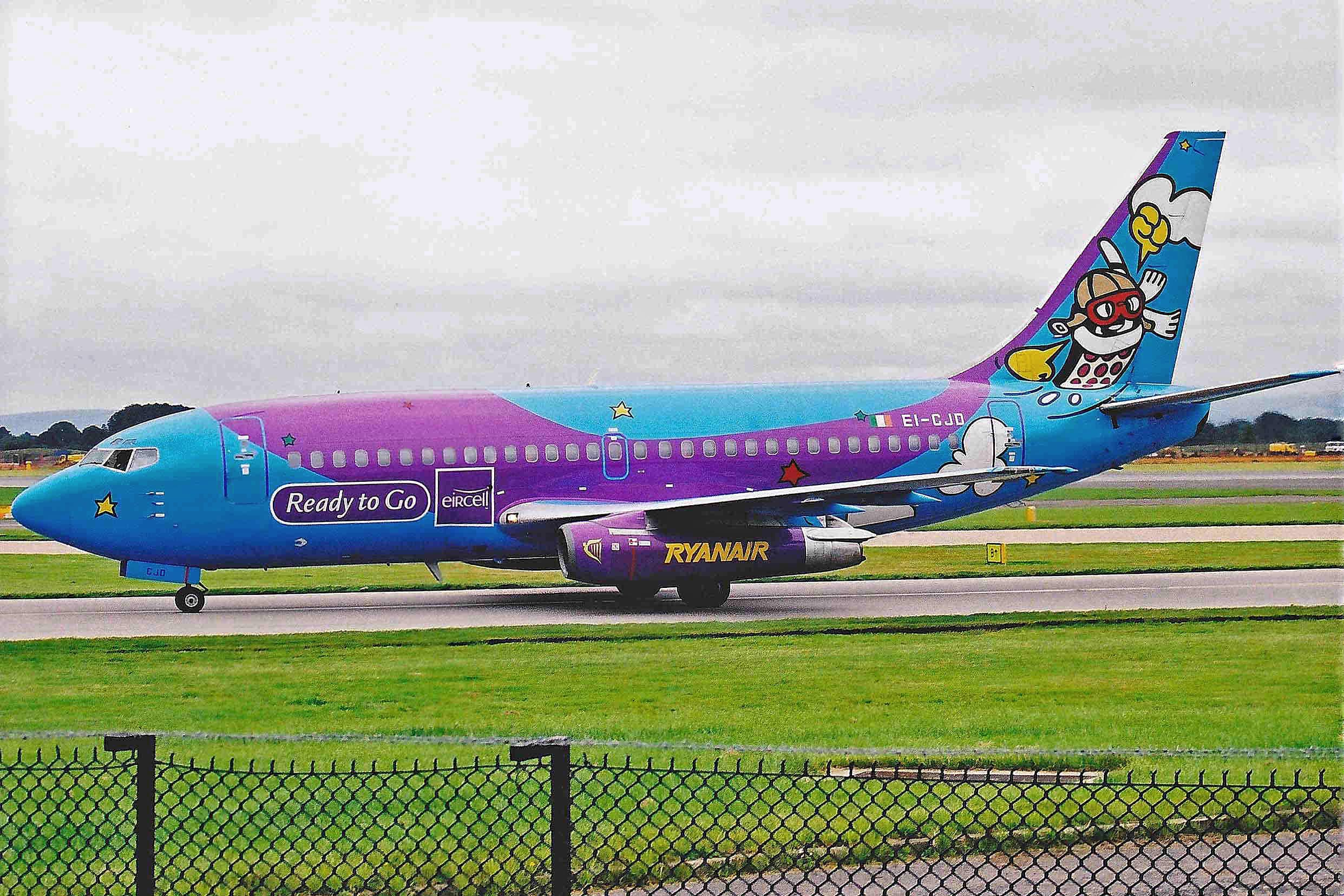 'Eircell' mobile phone logojet